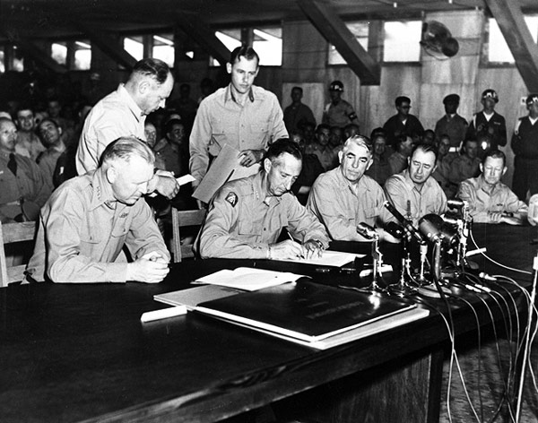 General Mark W. Clark, Far East commander, signs the Korean armistice agreement on July 27, 1953, after two years of negotiation.(U.S. Navy Museum photo)